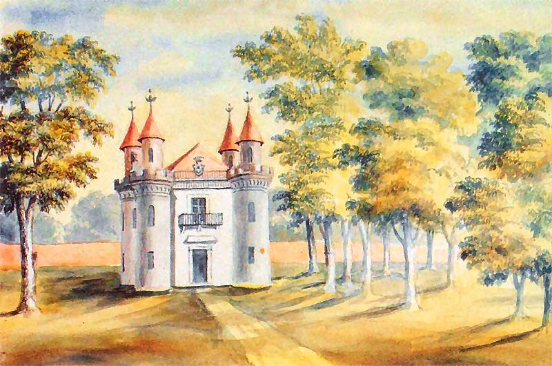 Manor house of Czapski family in Stańkаŭ